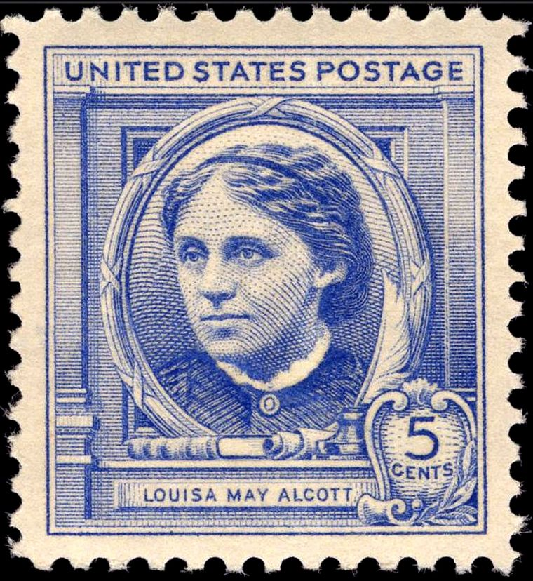 Louisa May Alcott U.S. Commemorative Postage stamp, 5c, 1940 issue